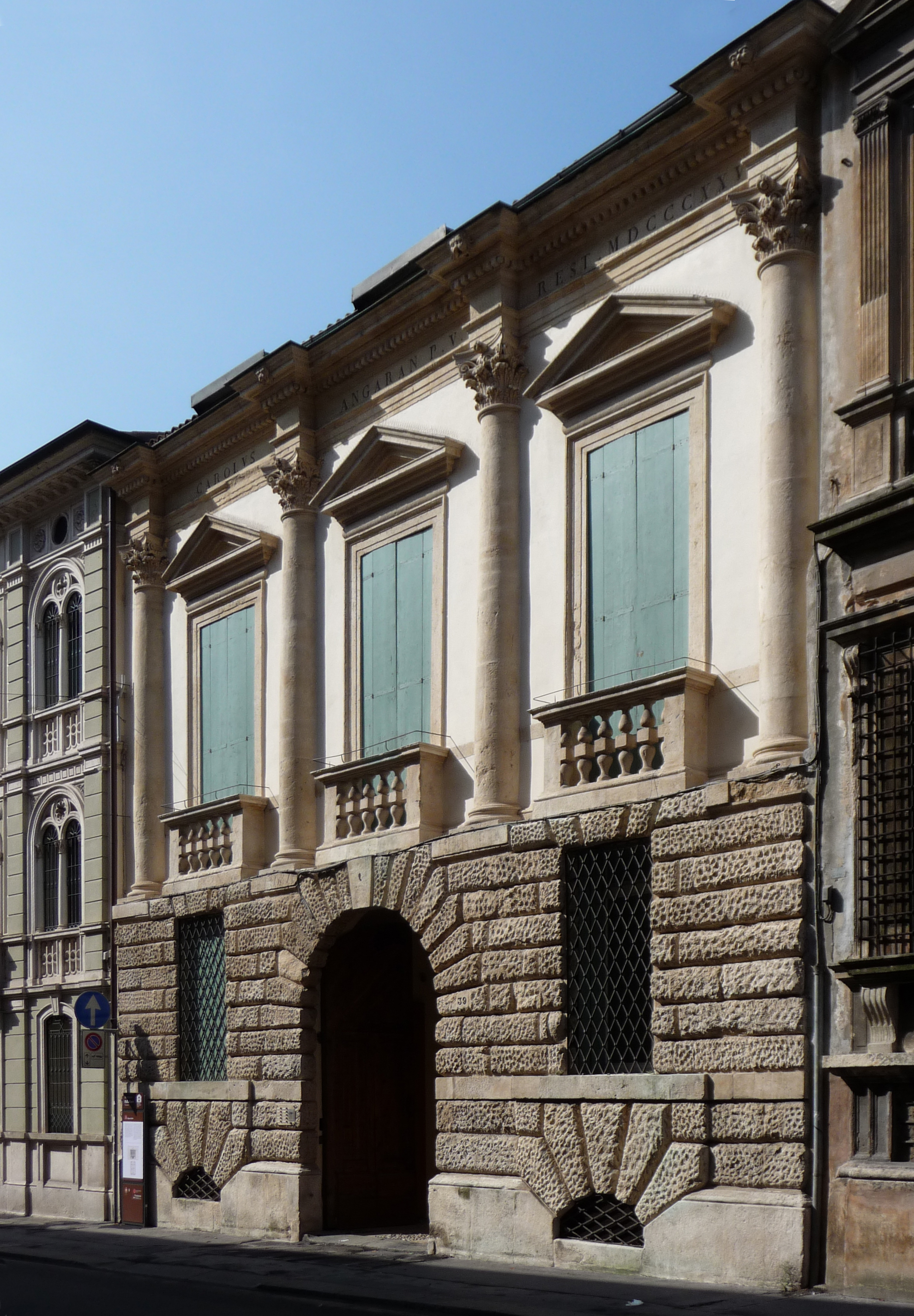 Palazzo Schio is a patrician palace Vicenza of 16th century. Its facade was designed by Andrea Palladio in 1560.